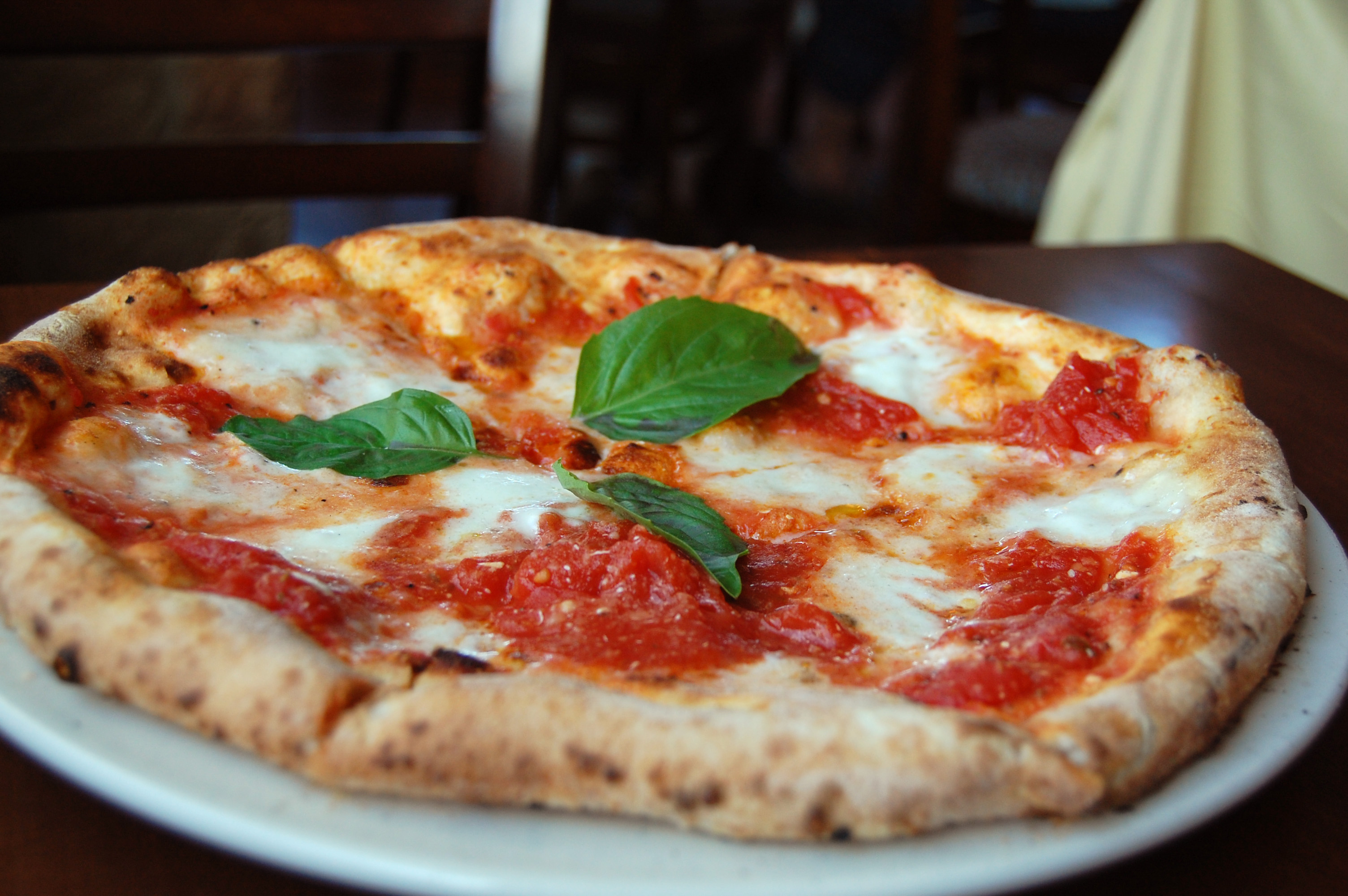 Crostata's sure is attracting a lot of attention. I found pictures from at least three other people on the intertubes. There aren't many other Cleveland area restaurants that can boast of that sort of internet coverage. Our local food blog community isn't really dense enough to create the hype you see in some other places. It's well deserved attention, too. That was a delicious pizza. I'll be back soon to try some of their others.